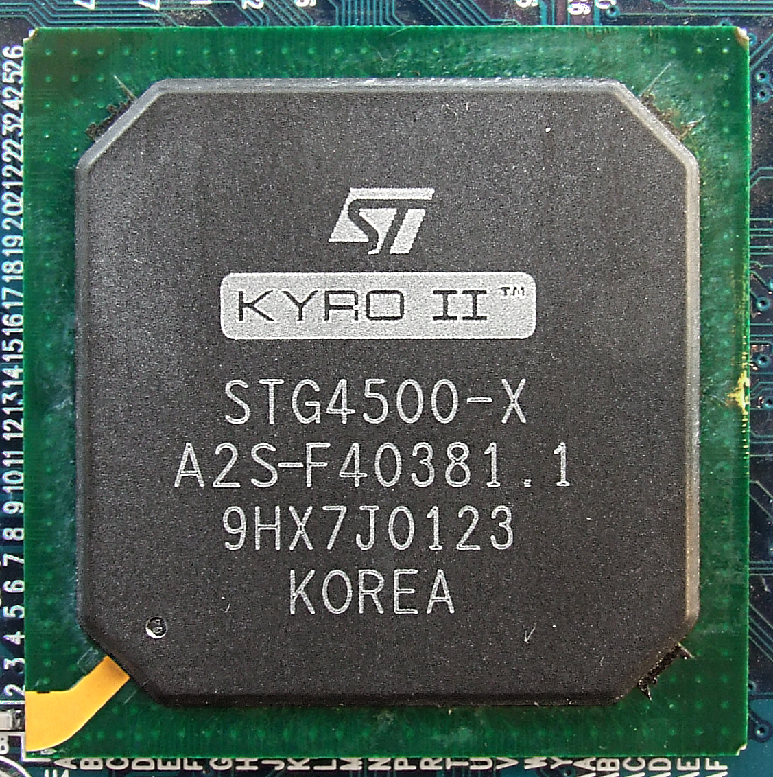 STMicroelectronics STG4500 "Kyro II" graphics processing unit. This is the second release of the PowerVR Series3 family of GPUs.